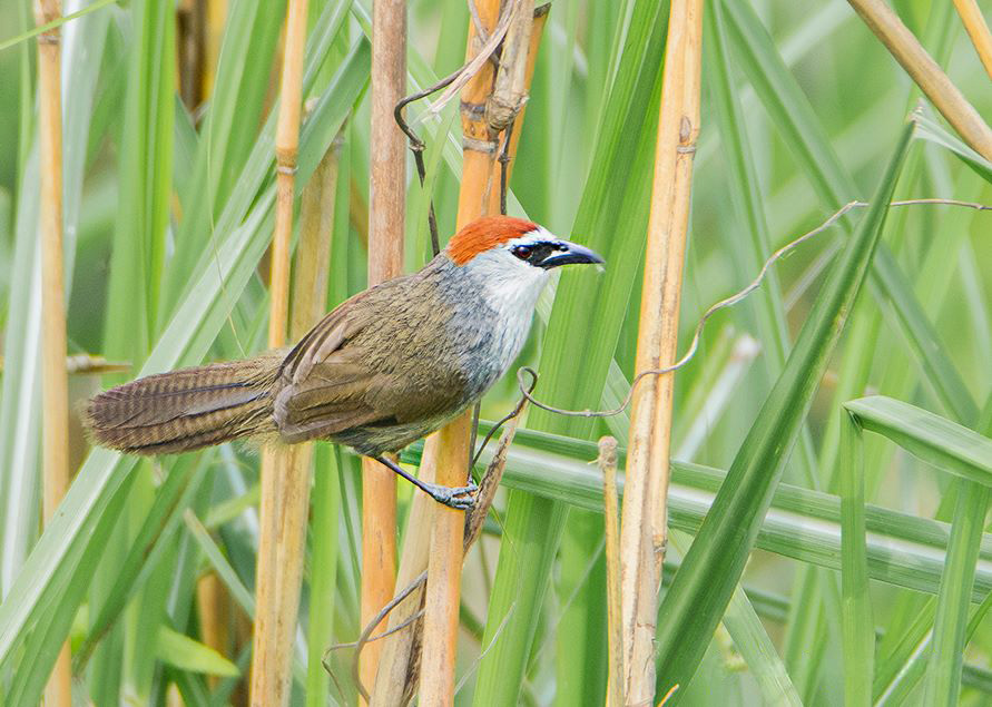 Chestnut-capped Babbler Timalia pileata at Manas Nationa Park, Assam, by Hedayeat Ullah